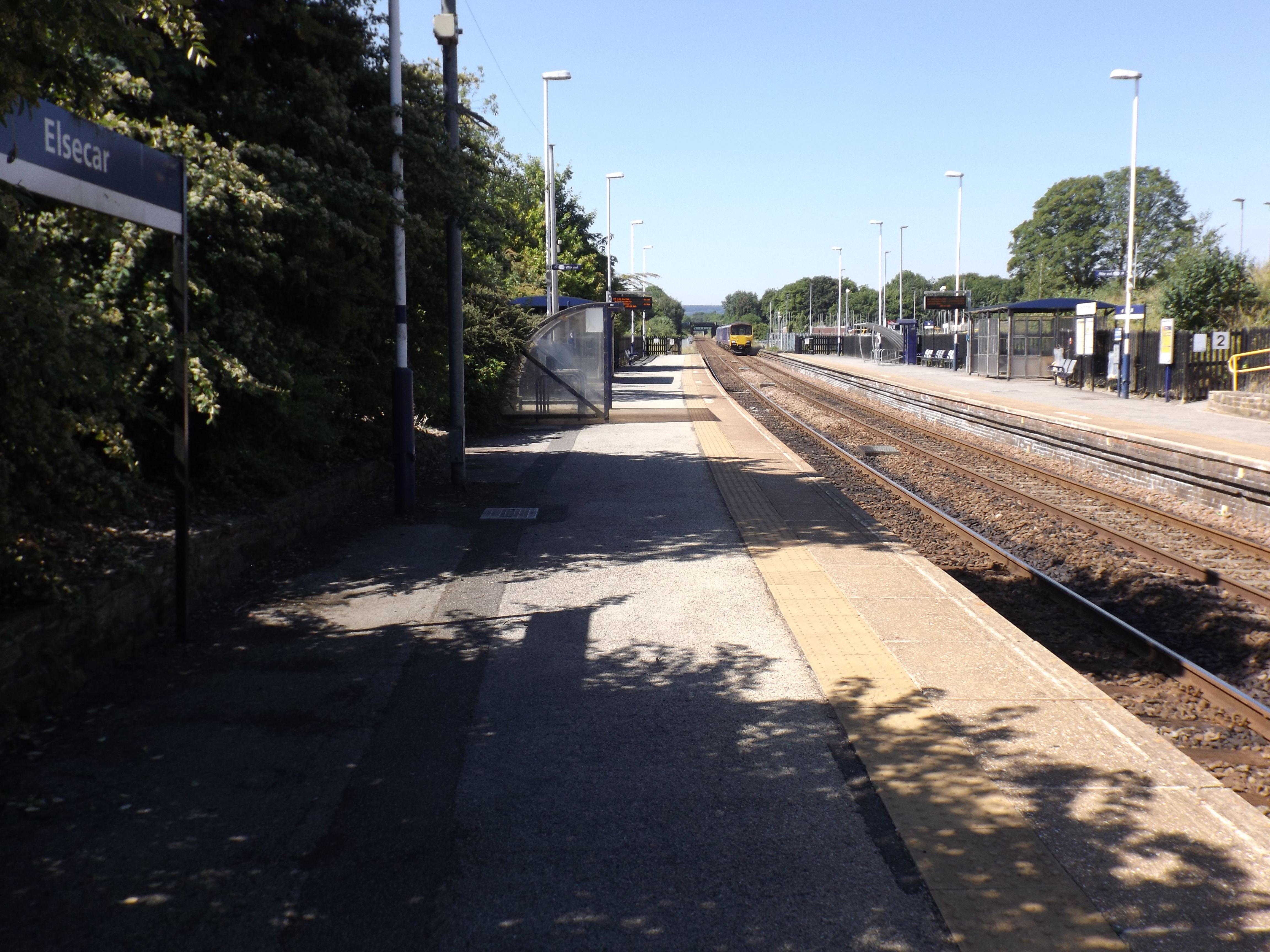 Elsecar railway station viewed from platform 1.